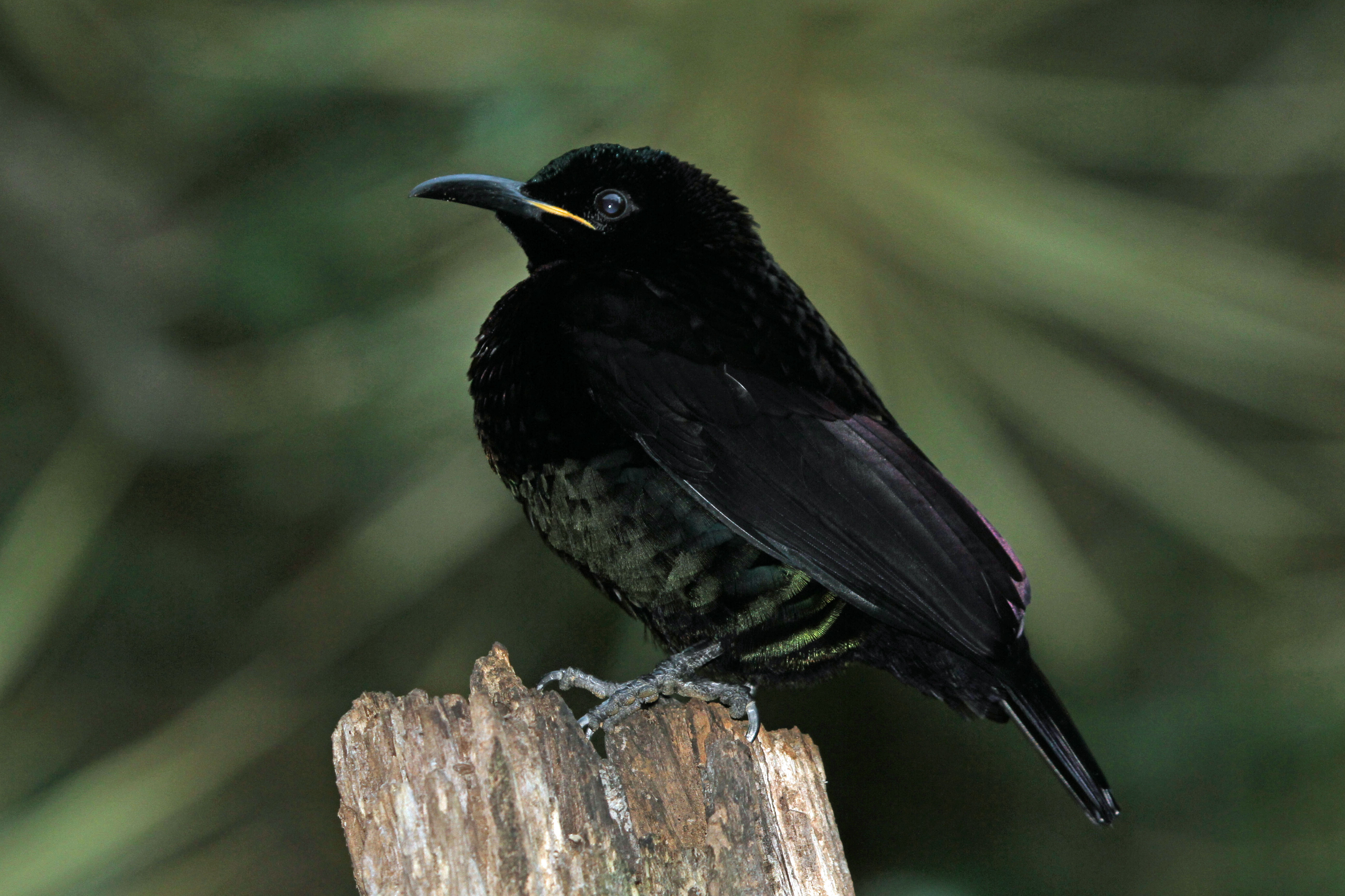 A male Victoria's Riflebird in Daintree, Queensland, Australia.